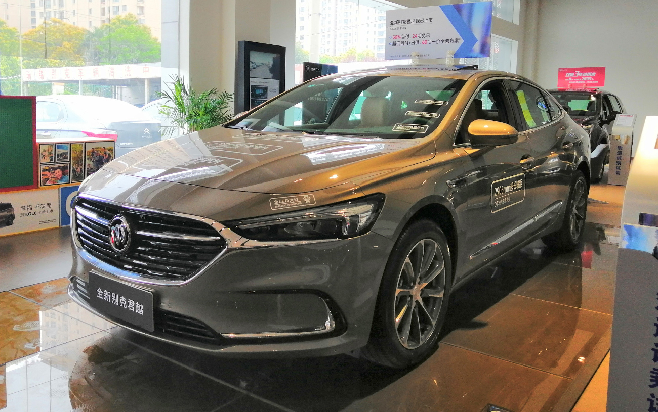 Buick LaCrosse III facelift photographed in Shanghai, China.